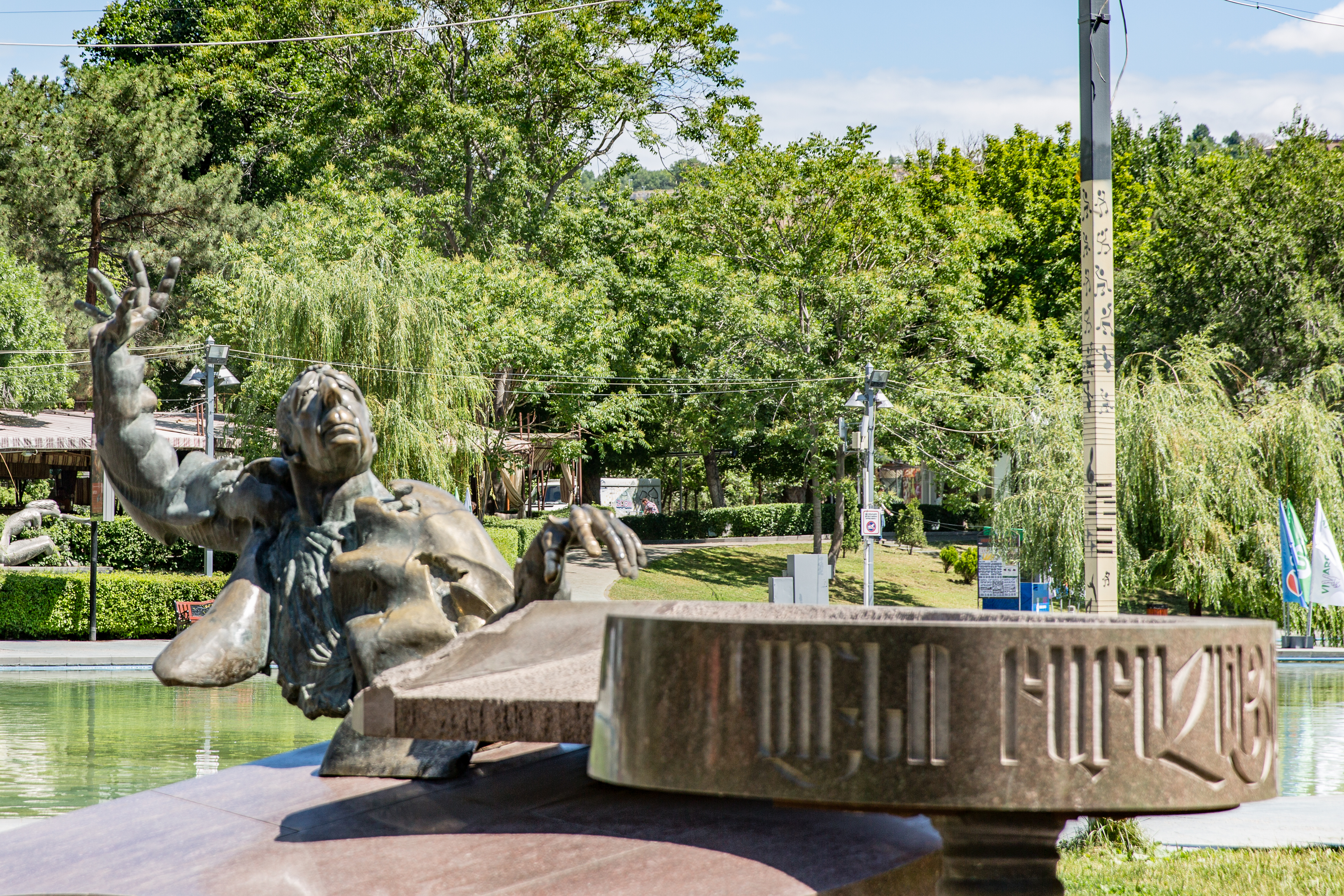 Arno Babajanian statue, Yerevan, June 2016